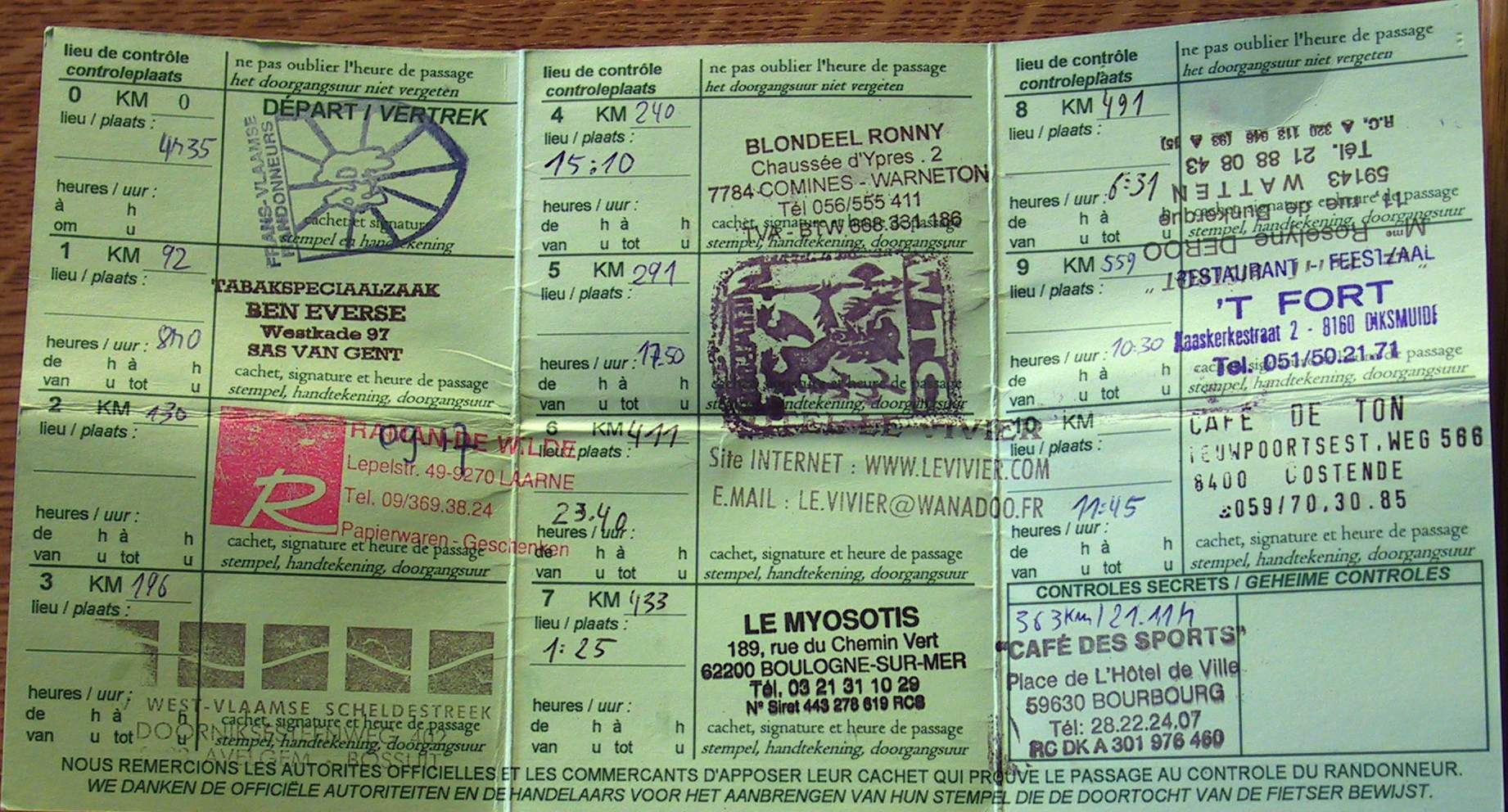 Control card of an brevet in Belgium